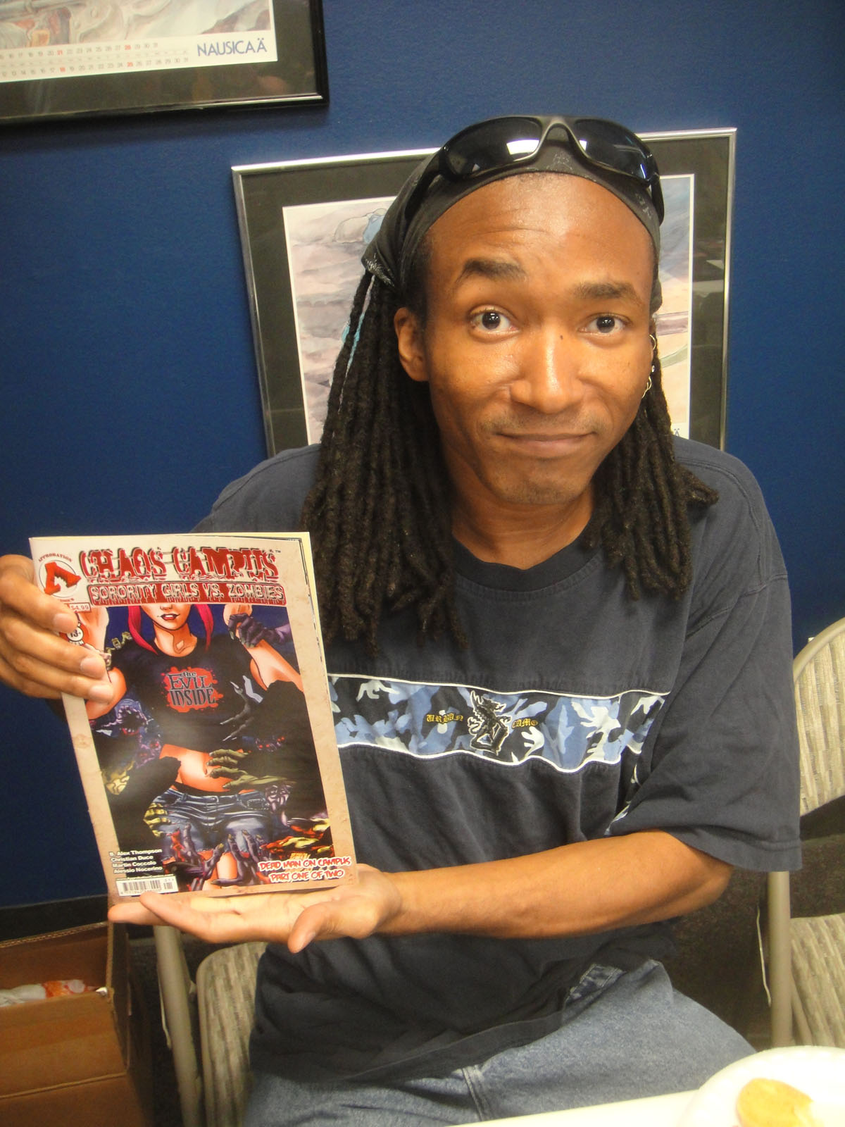 Bart Thompson (B Alex Thomson) at the 2012 Free Comic Book Day